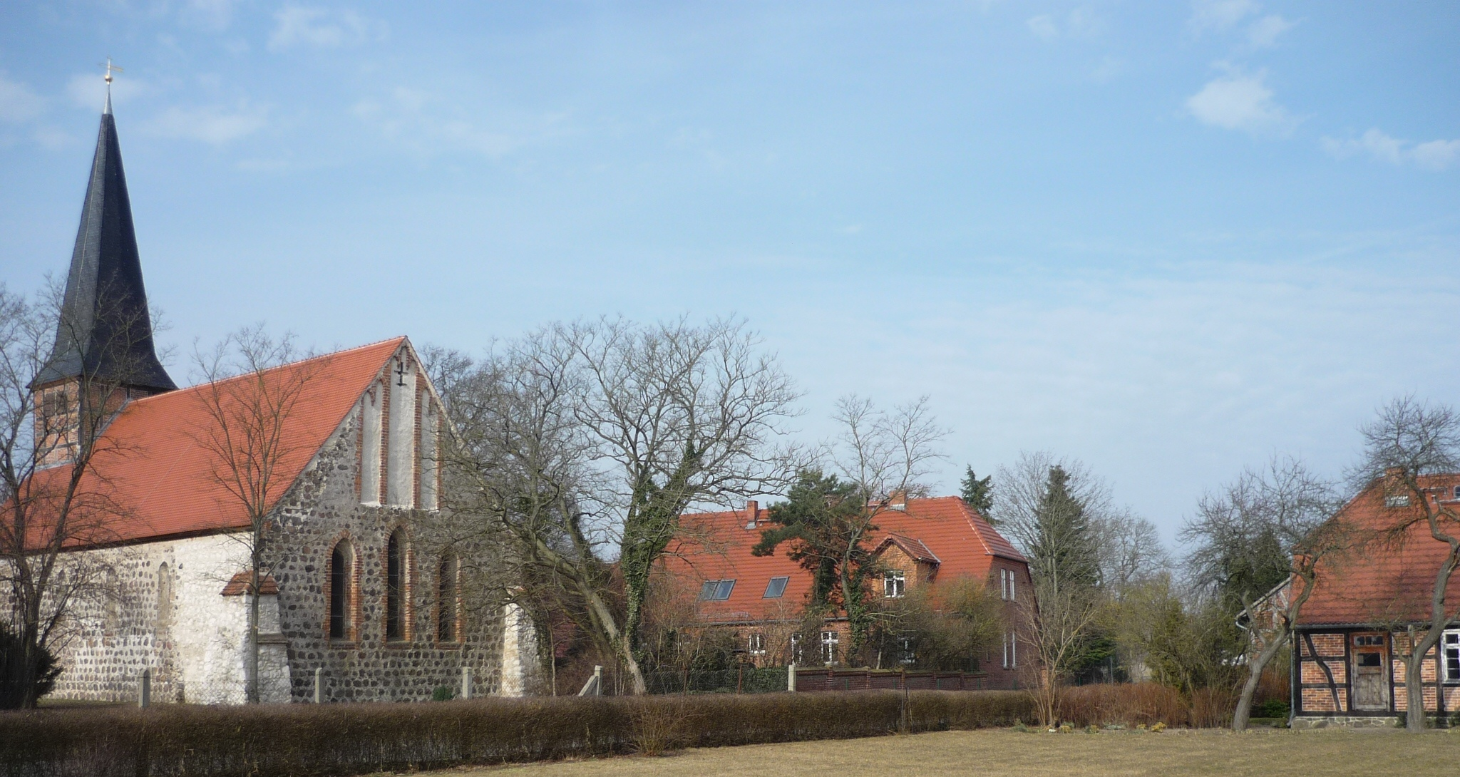 Nebelin, church and manson